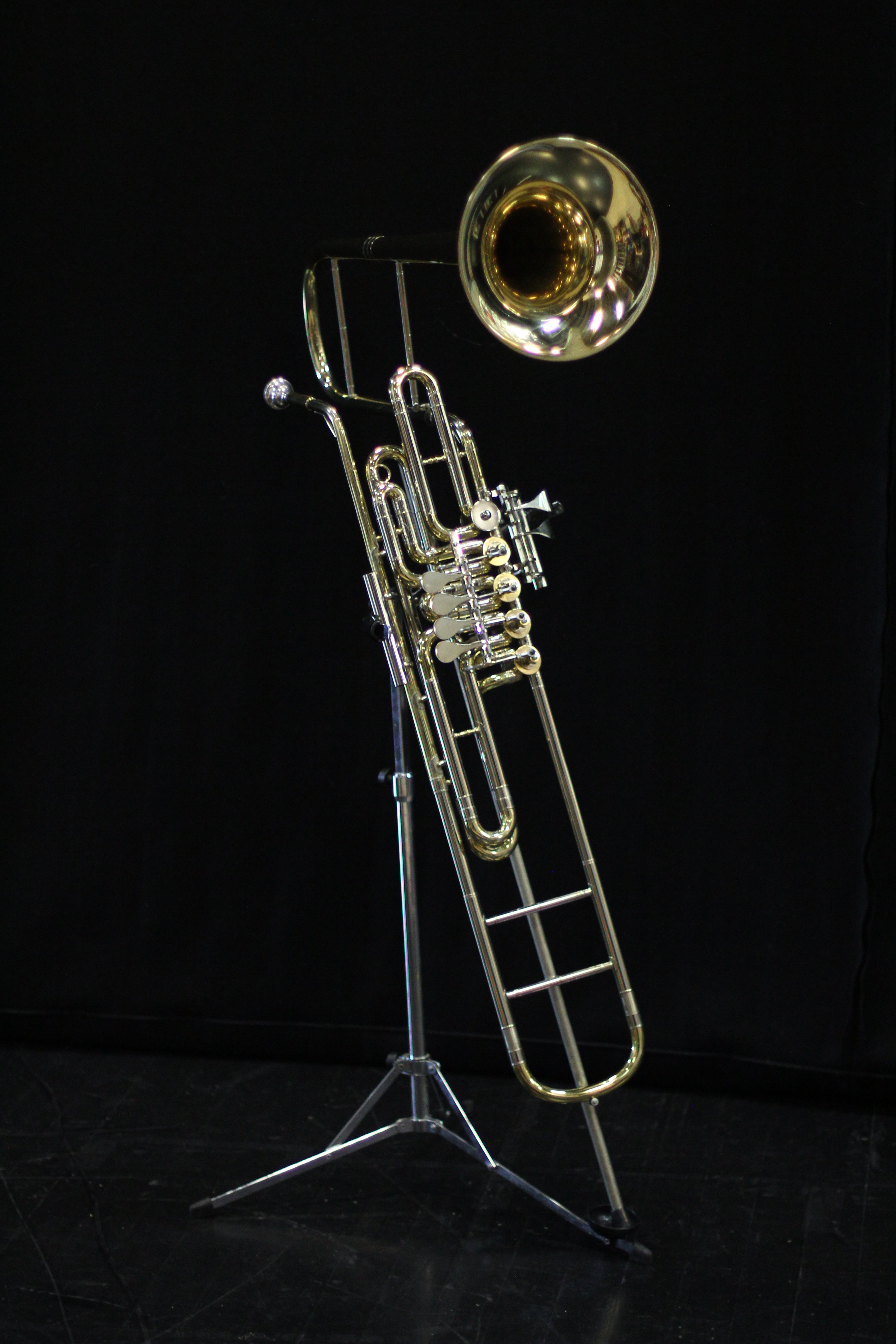 A modern cimbasso in F with 5 rotary valves and a 2nd valve slide trigger, by Melton-Meinl Weston.